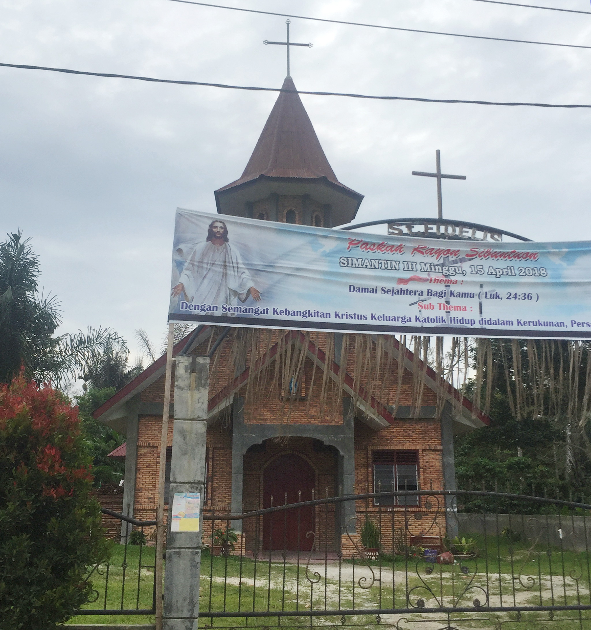 St. Fidelis Catholic Church in Simantin Pane Dame, Panei, Simalungun